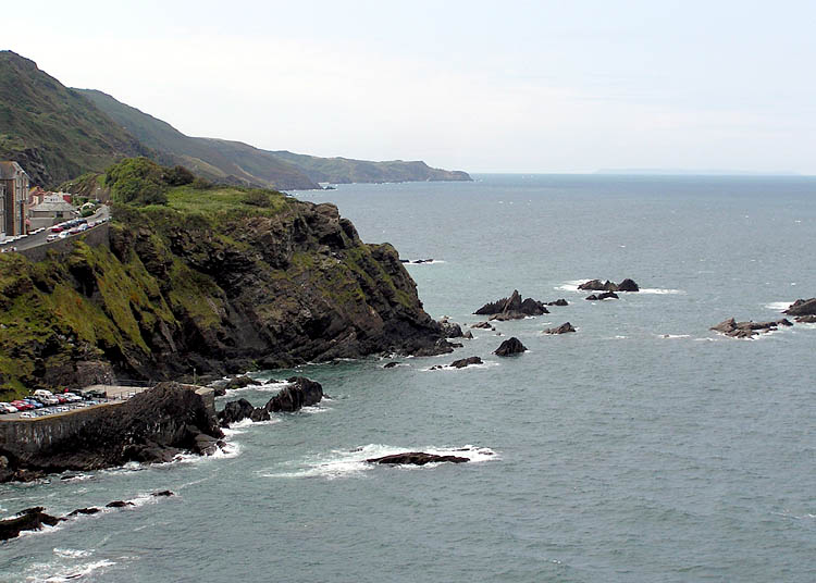 The Bristol Channel coast at Ilfracombe, North Devon, England, looking west towards Lee Bay. The land to the right of the picture is Lundy Island. Taken by Adrian Pingstone in July 2004 and released to the public domain.